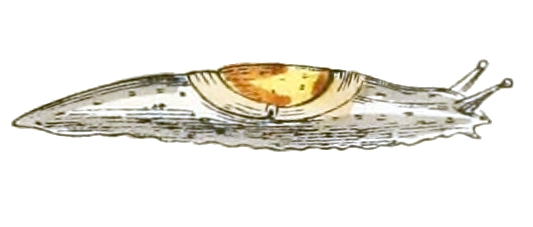 drawing of Hyalimax pellucidus. In the source book named as Hyalimax pellucidus Quoy and Gaim from East Indies.